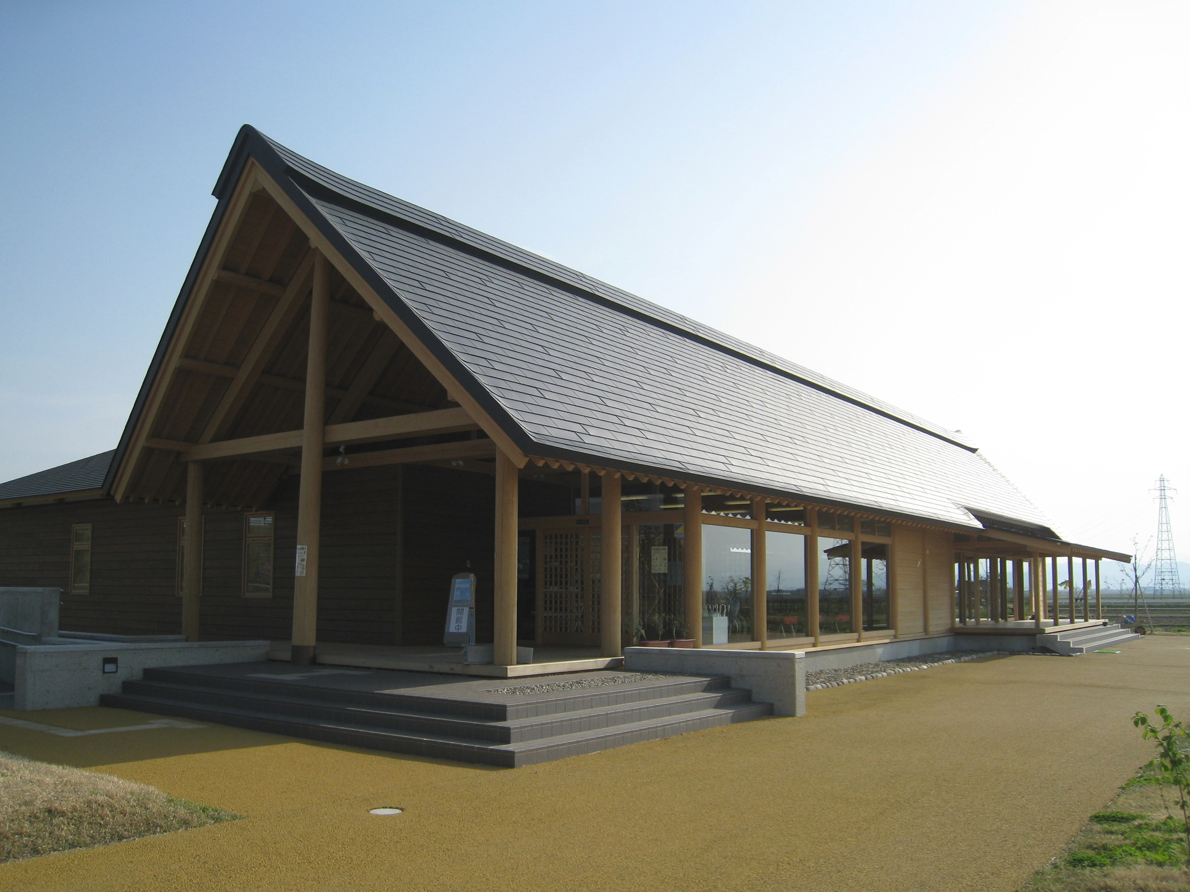 Guidance Facility of Tendo City Nishinumata Site Park, This Photo Taken in May 2, 2009